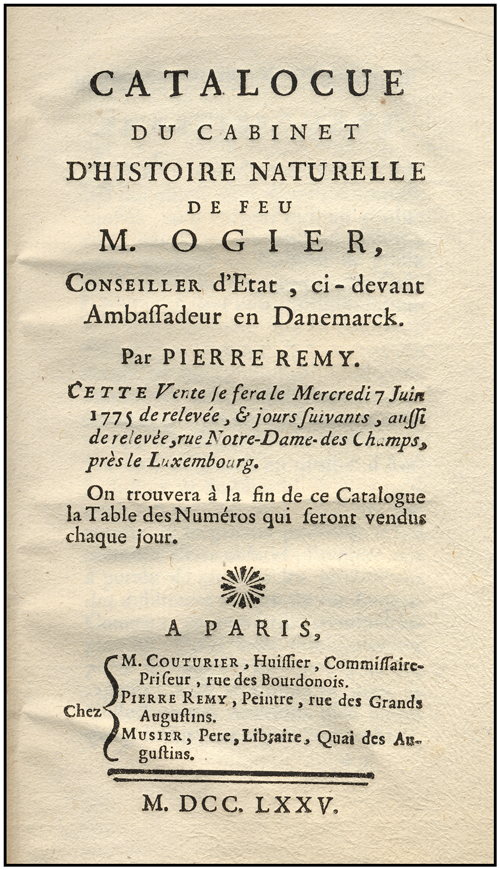 The Mineralogical Record - Jean-François Ogier Ogier's posthumous 1775 auction catalog featuring his extensive mineral collection Mineralogical Record Library